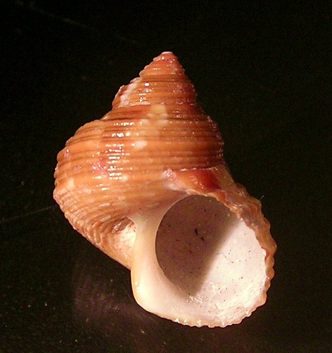 Turbo cailletii P. Fischer & Bernardi, 1857, a turban snail from the family Turbinidae; Bahamas